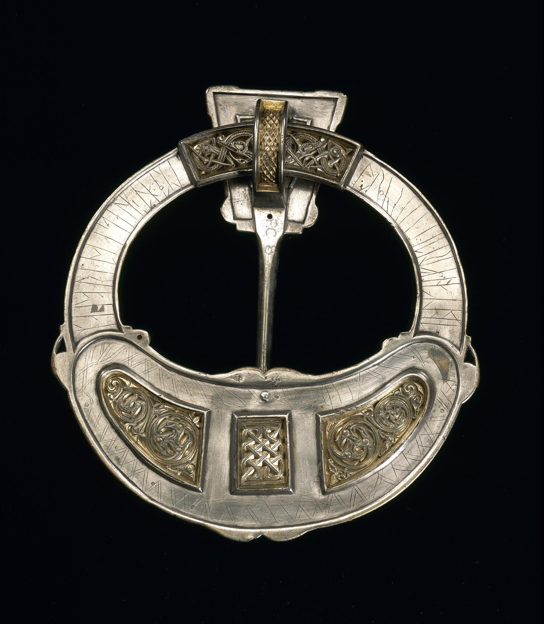 This file was uploaded as part of a partnership between Wikimedia UK and the National Museum of Scotland. This tag does not indicate the copyright status of the attached work. A normal copyright tag is still required. See Commons:Licensing. This work is free and may be used by anyone for any purpose. If you wish to use this content, you do not need to request permission as long as you follow any licensing requirements mentioned on this page.